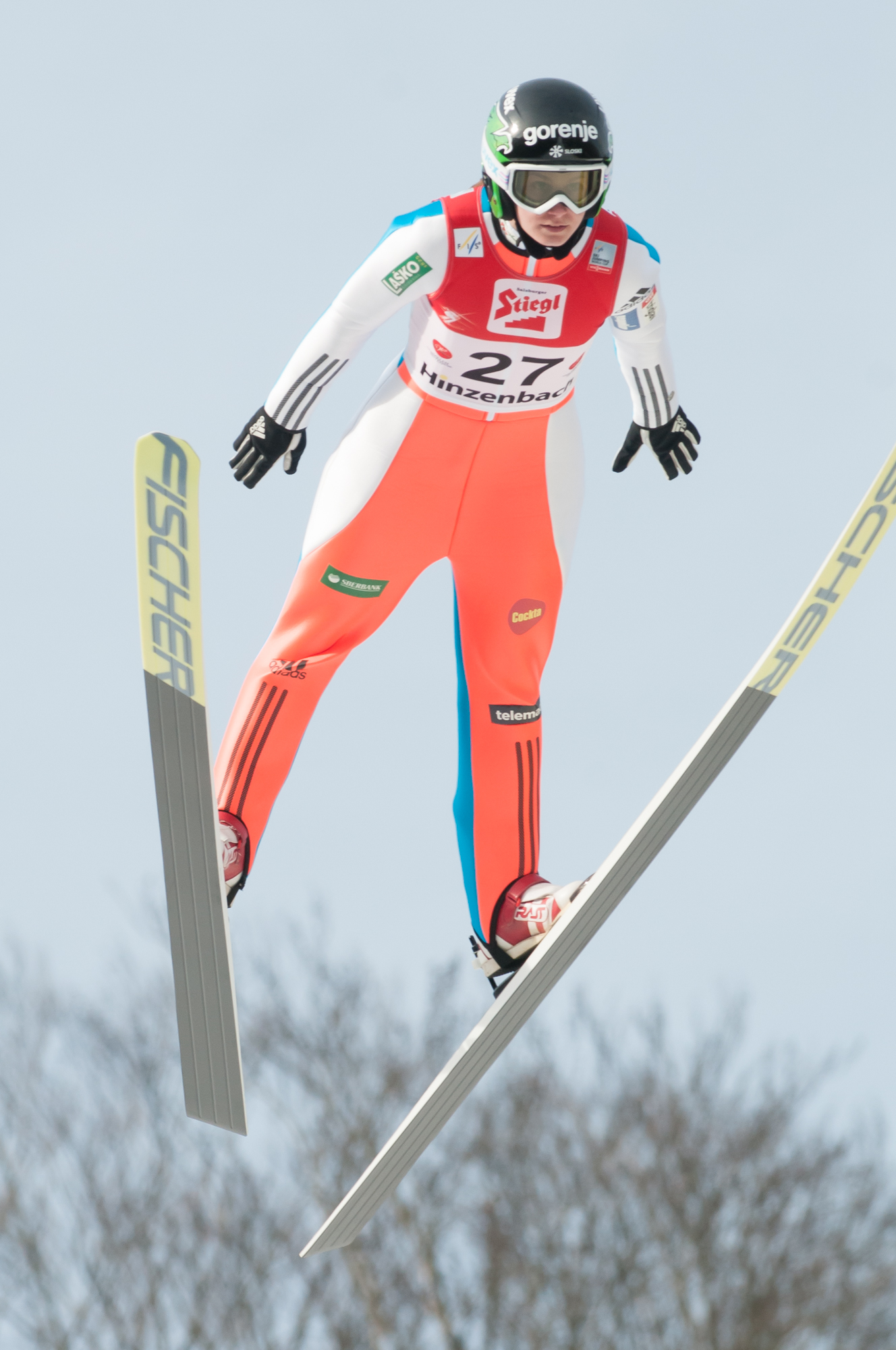 FIS Ski Jumping World Cup Ladies Hinzenbach 2016-02-07